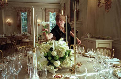 White House Chief Floral Designer Nancy Clarke completes a table bouquet before a State Dinner.